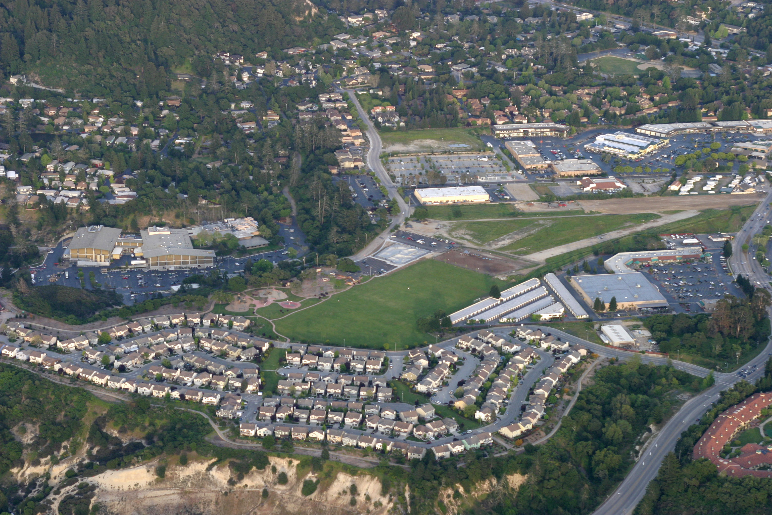 Aerial photograph of Scotts Valley photographed on 2005-04-22 showing the final remains of the Santa Cruz Sky Park airport; the former runways are visible on the right side of the image.